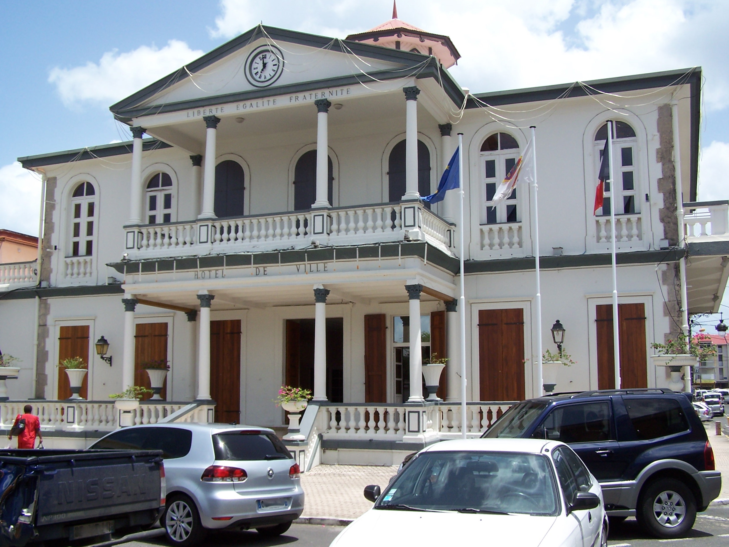 Hôtel-de-Ville de Basse-Terre sur la place de la Liberté